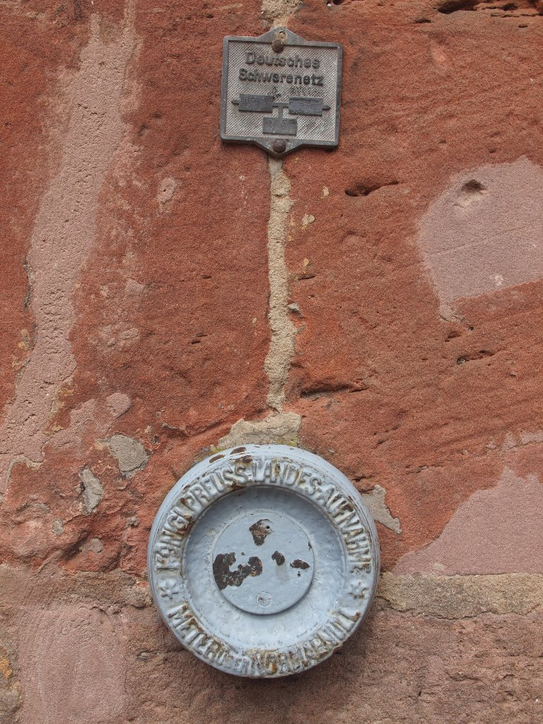 A benchmark (surveying) at the spire of Bad Hersfeld's parish church. Above a tag of the German Gravity Network 1962